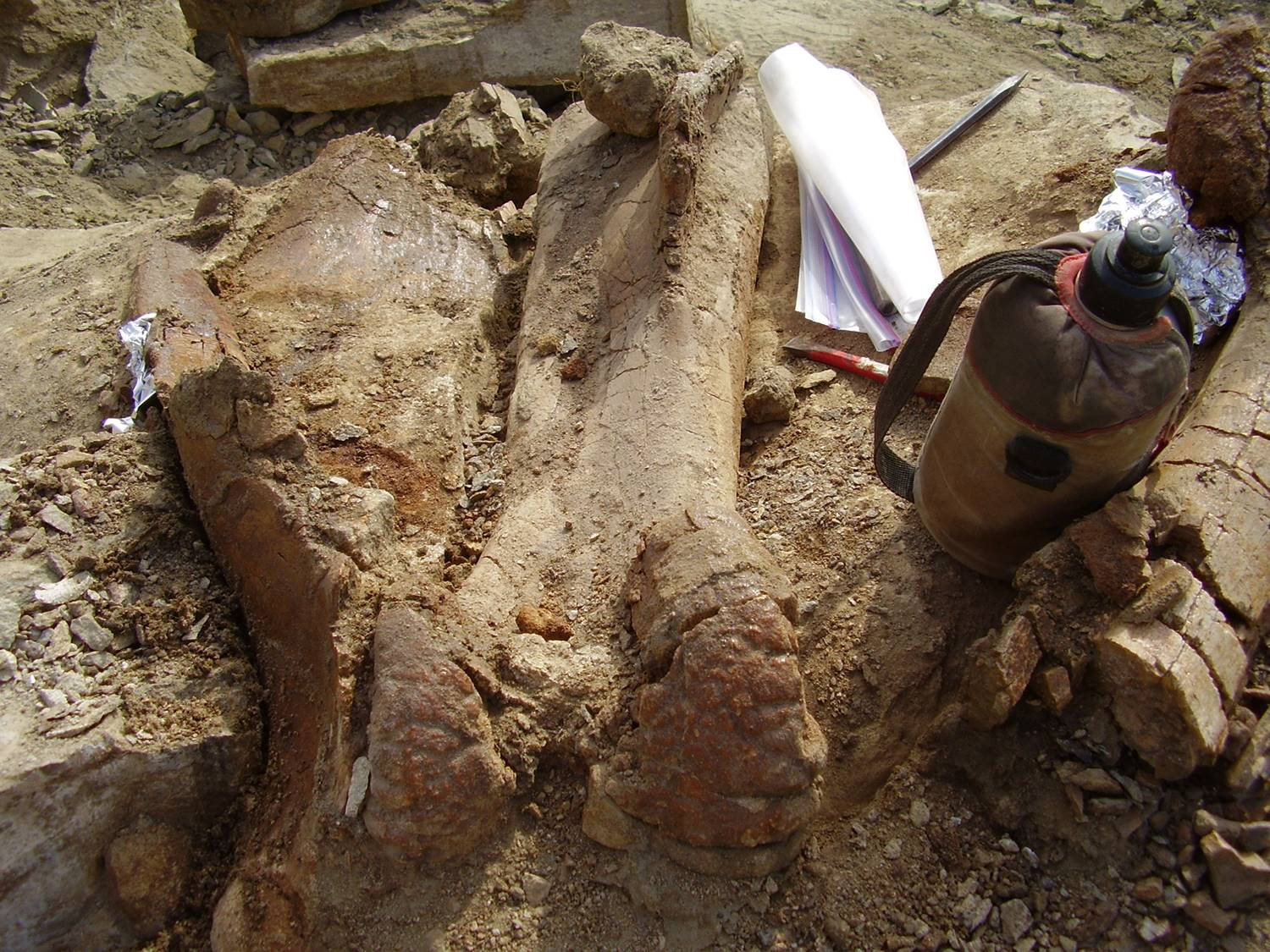 Fossils of edmontosaurus from the Hell Creek formation (eastern Montana).